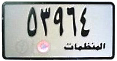 Iraq_license_plate_iraq_2001-Arab Baath Socialist Party's vehicles' plate with Arabic word "Organizations"